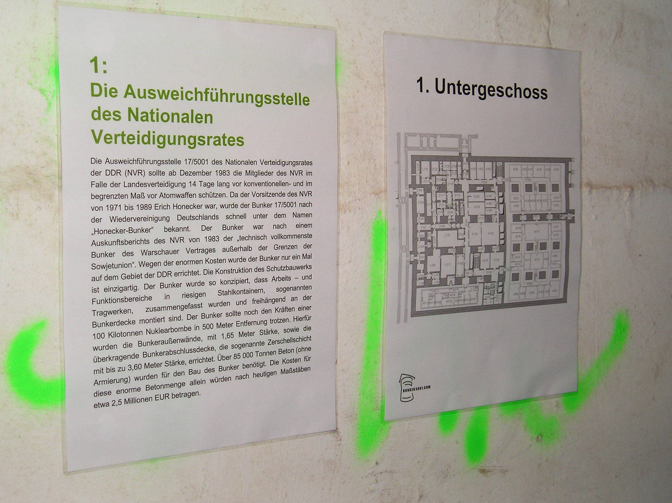 Object 17/5001 shelter in Prenden, Germany - Map